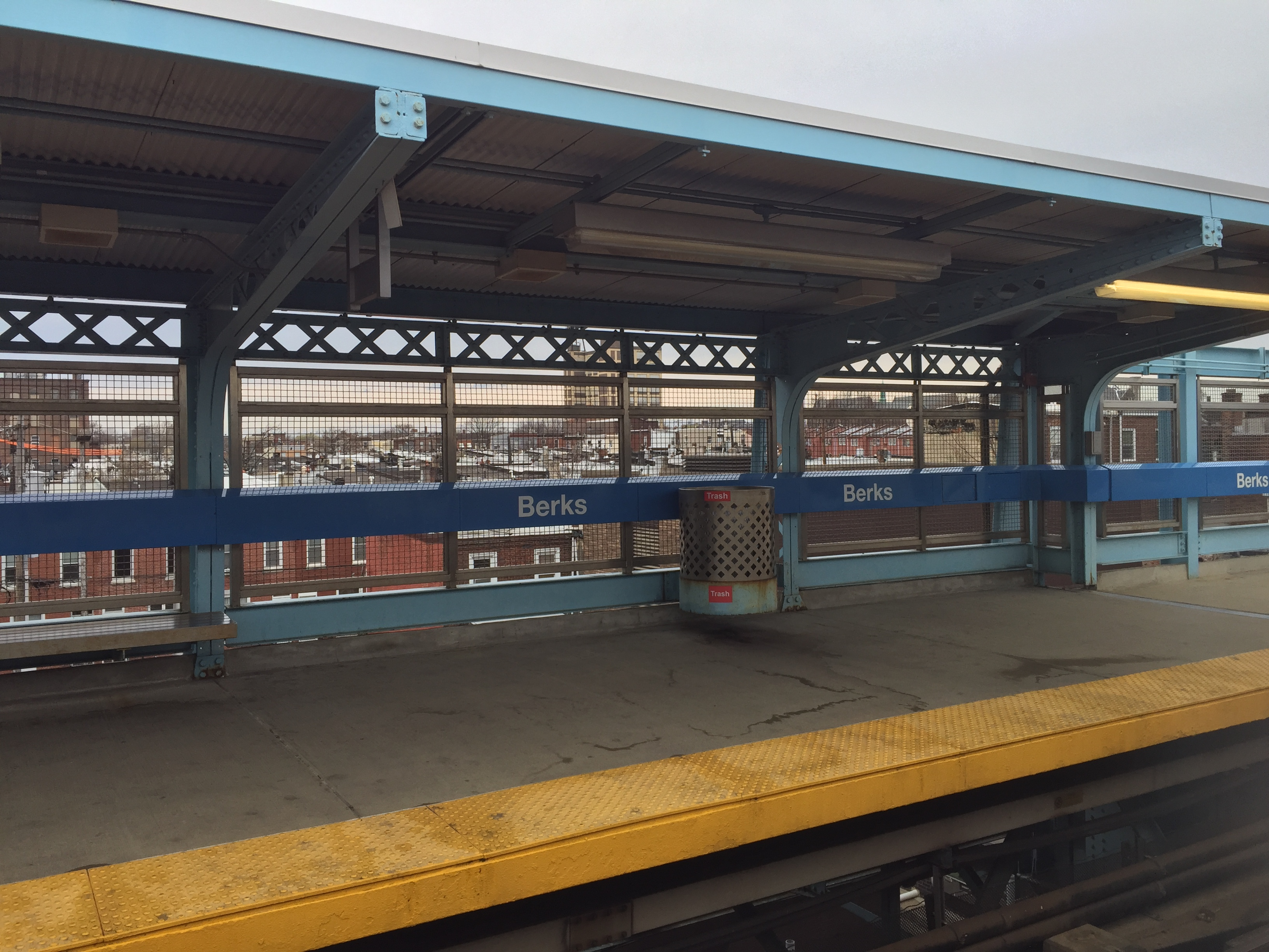 Berks station platform in April 2018